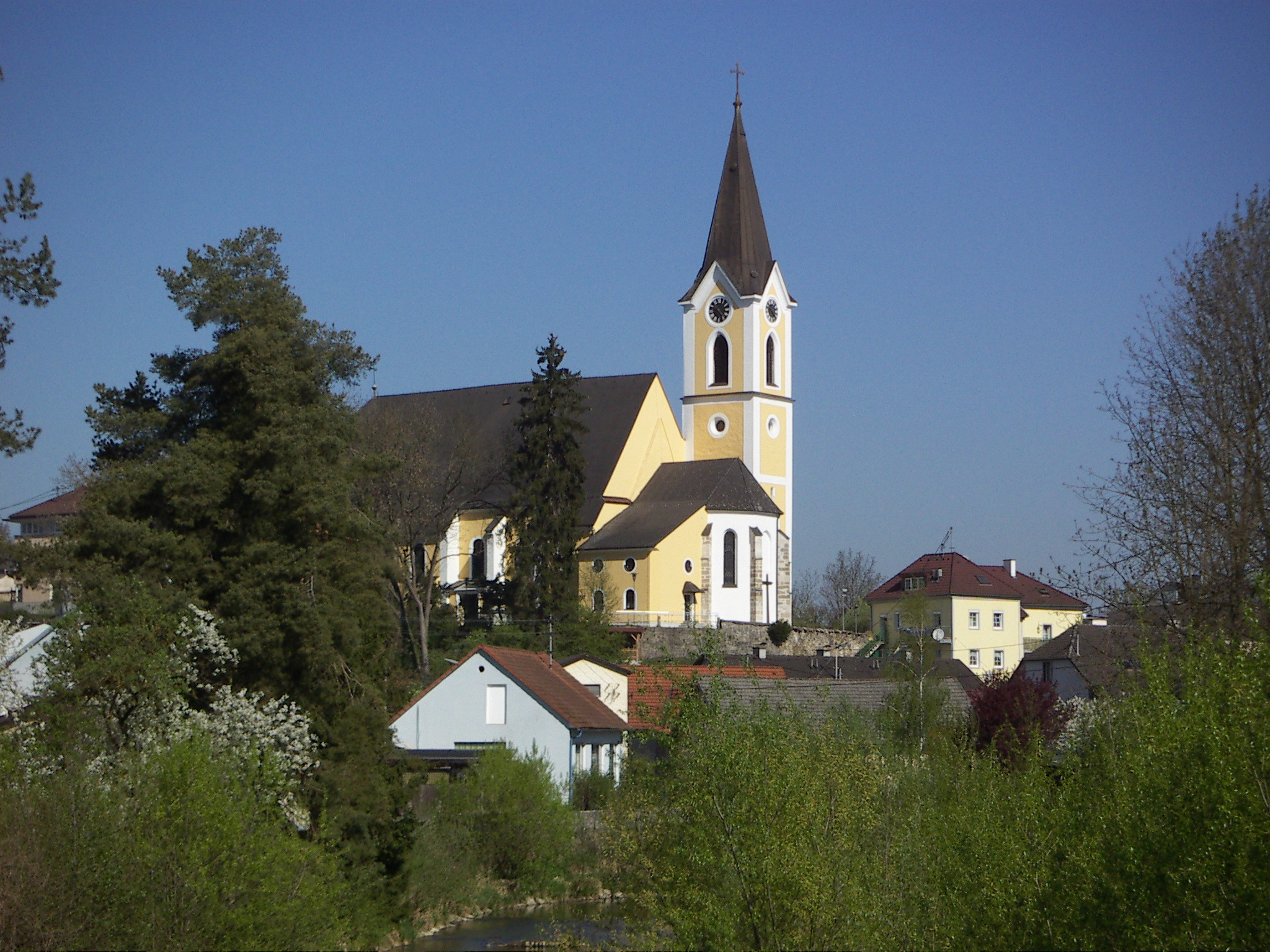 The Roman-Catholic Parish Church of St. Georgen an der Gusen, Austria from the South